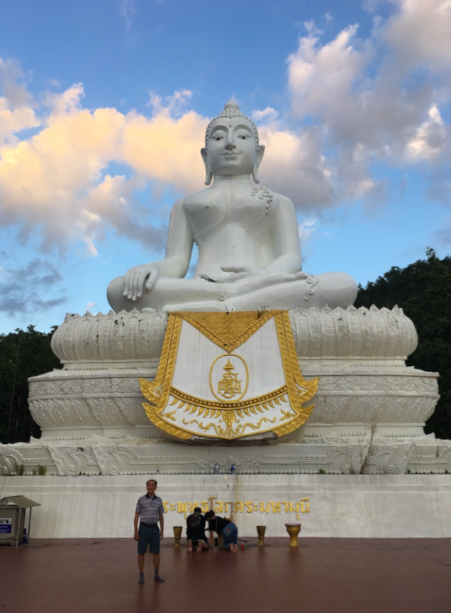 Big Buddha Pai Meditation by Mongkhol